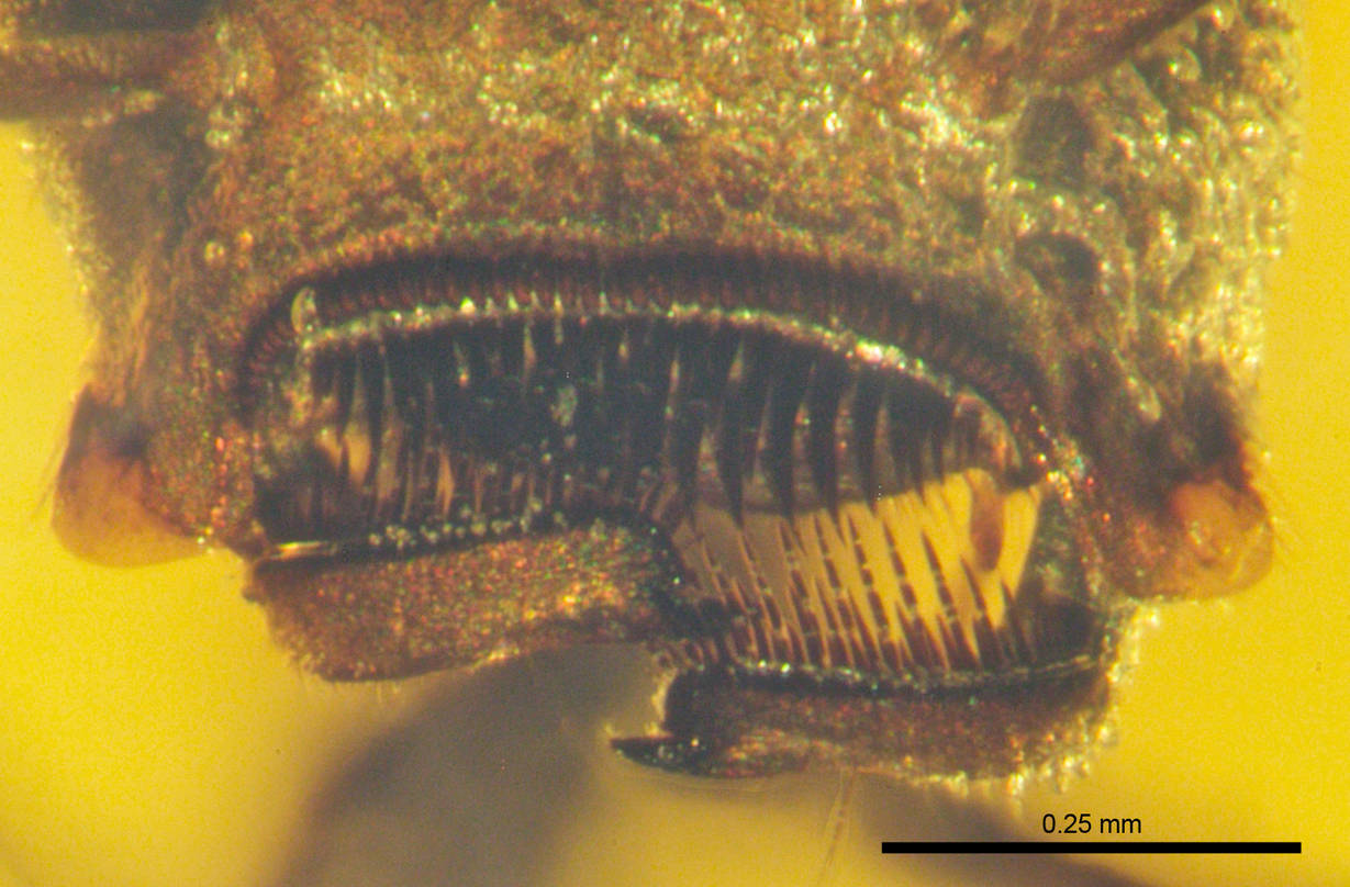 Close-up view of the Zigrasimecia ferox holotype mandibles. Specimen JWJ-Bu18a Burmese amber, Cenomanian (99mya), Hukawng Valley, Myanmar